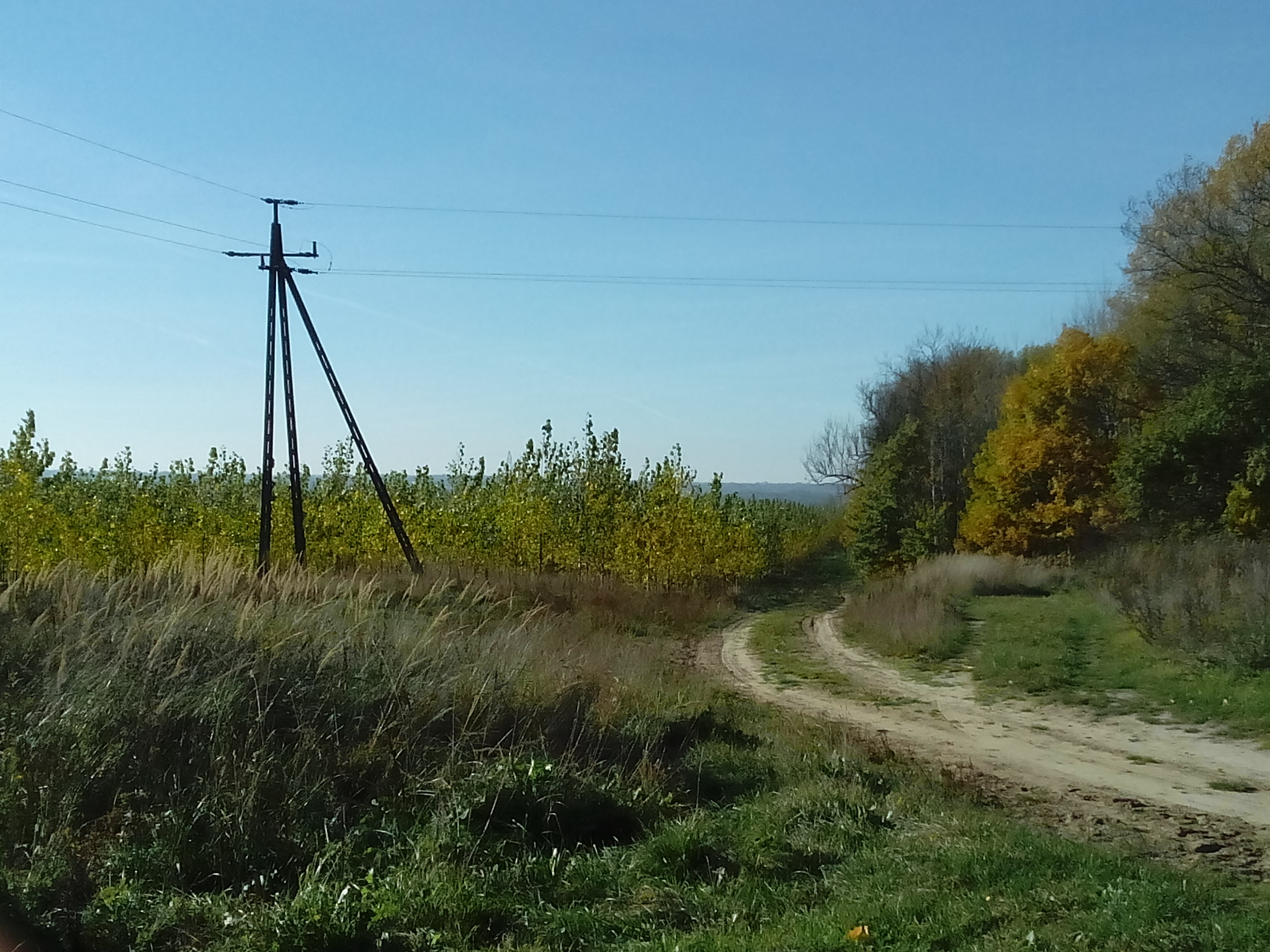 Wojciechowo forest 2014 (before 1945 Albrechtsdorf)